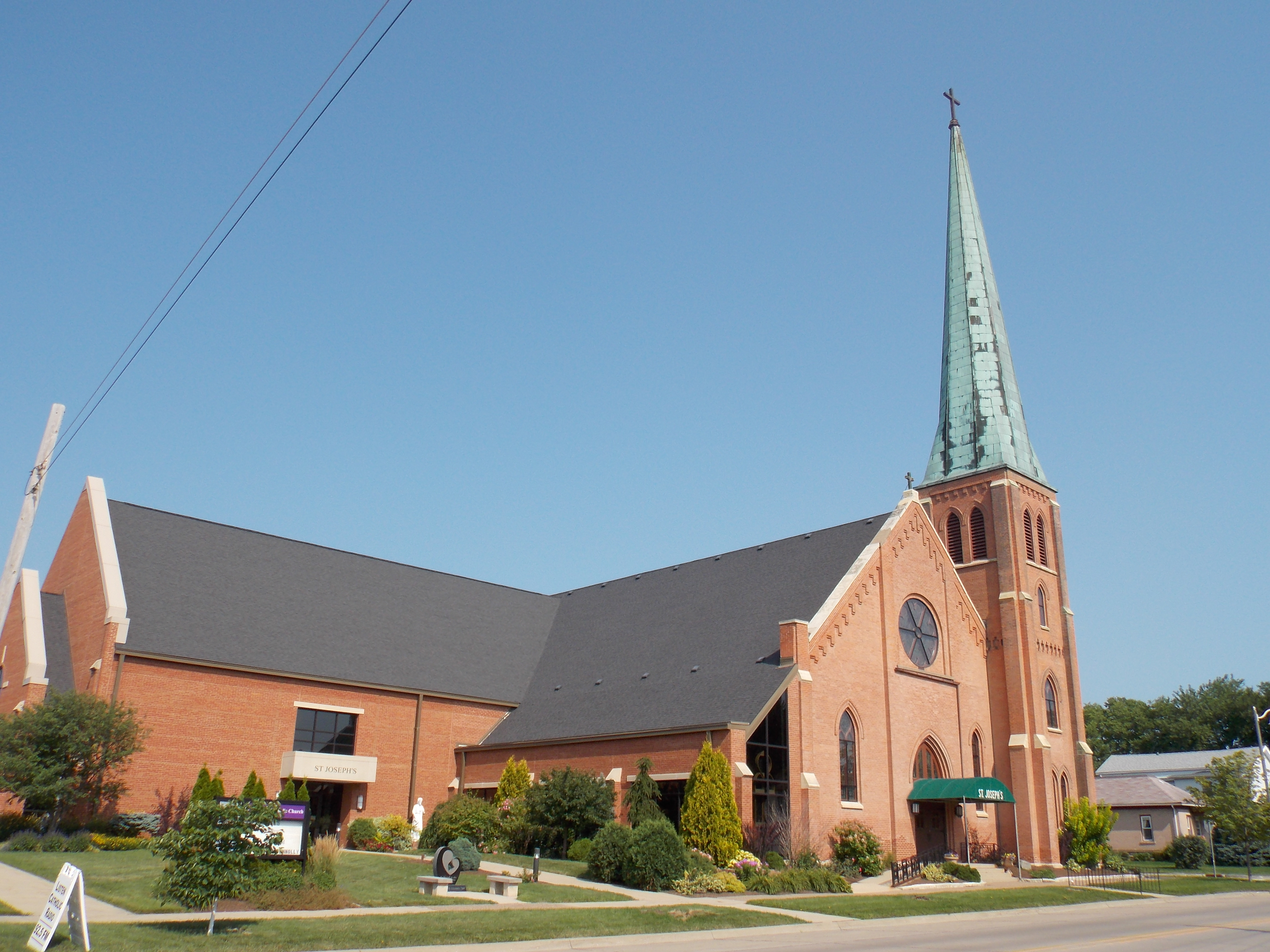 Saint Joseph's Catholic Church DeWitt, Iowa.